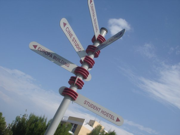 This photo shows buildings of the area of University of Nicosia